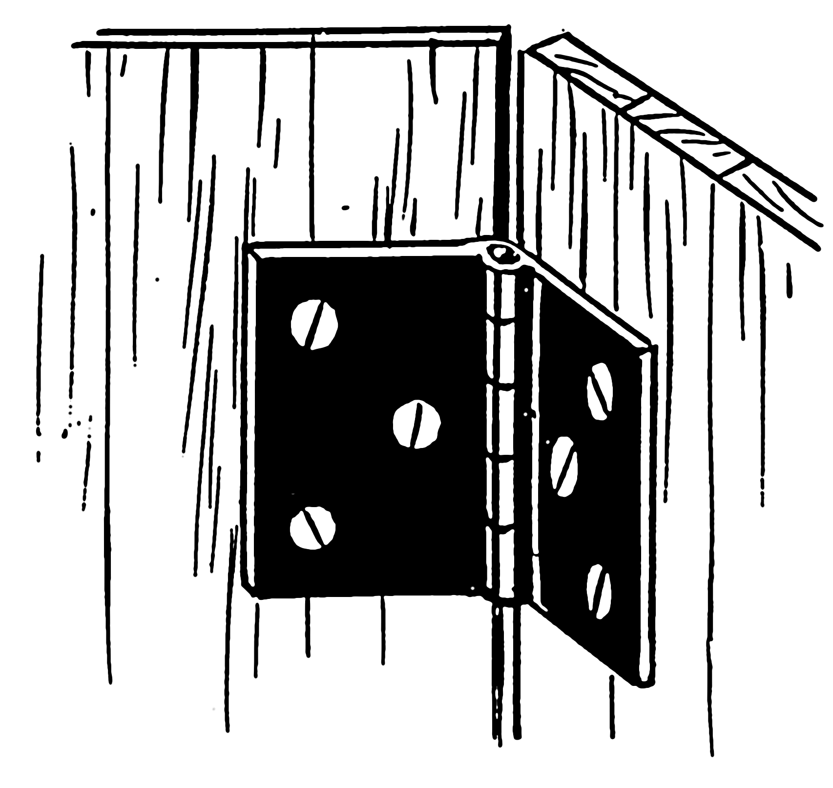 Line art drawing of a hinge.